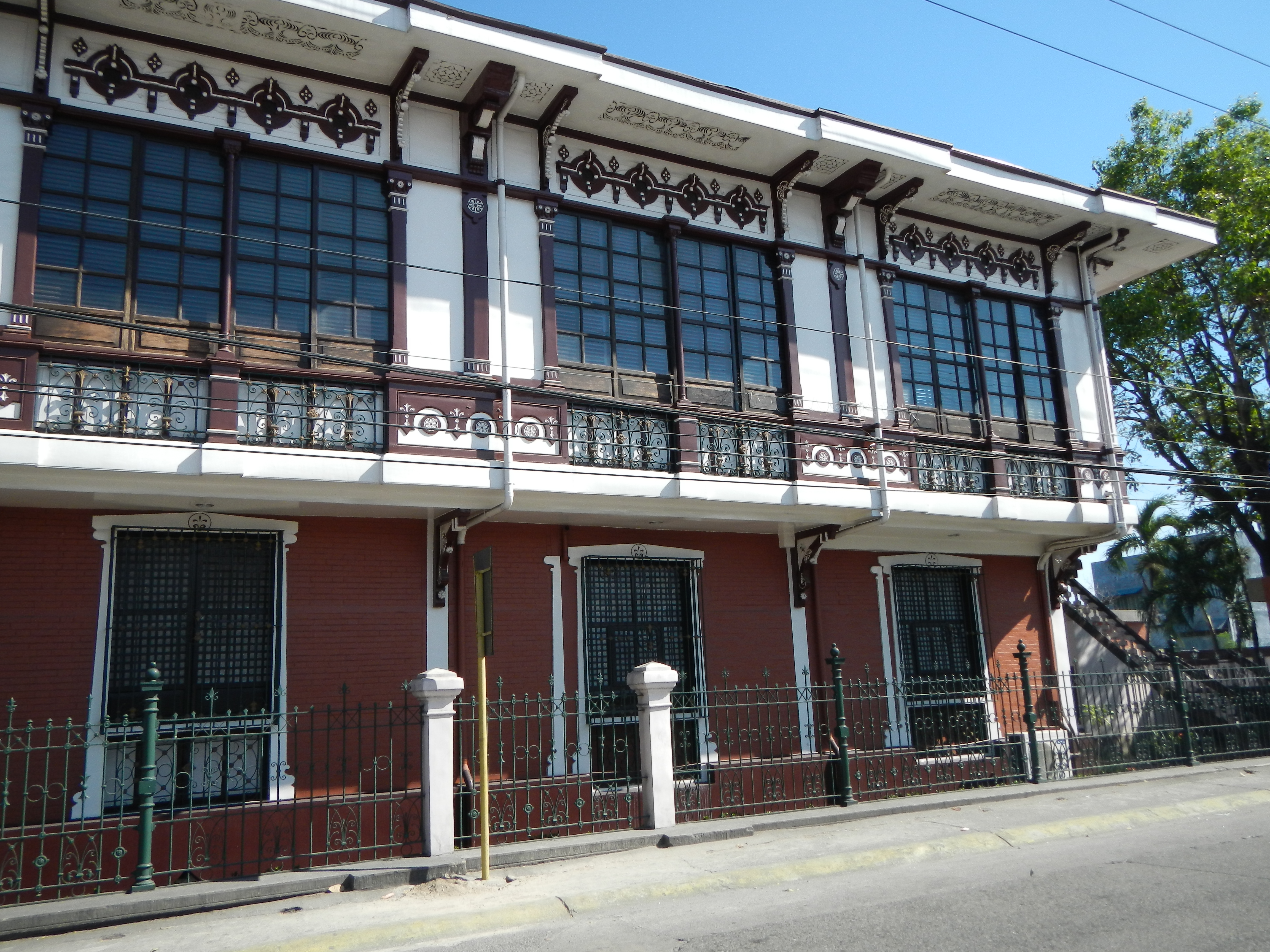 Photos Angeles, Philippines - Pamintuan Mansion built in 1890, Don Mariano Pamintuan and Valentina Torres' wedding gift to son Florentino now under the National Historical Commission of the Philippines for the transformation of the mansion into a museum beside the Angeles bridge, river and Angeles City Library and Information Center building.